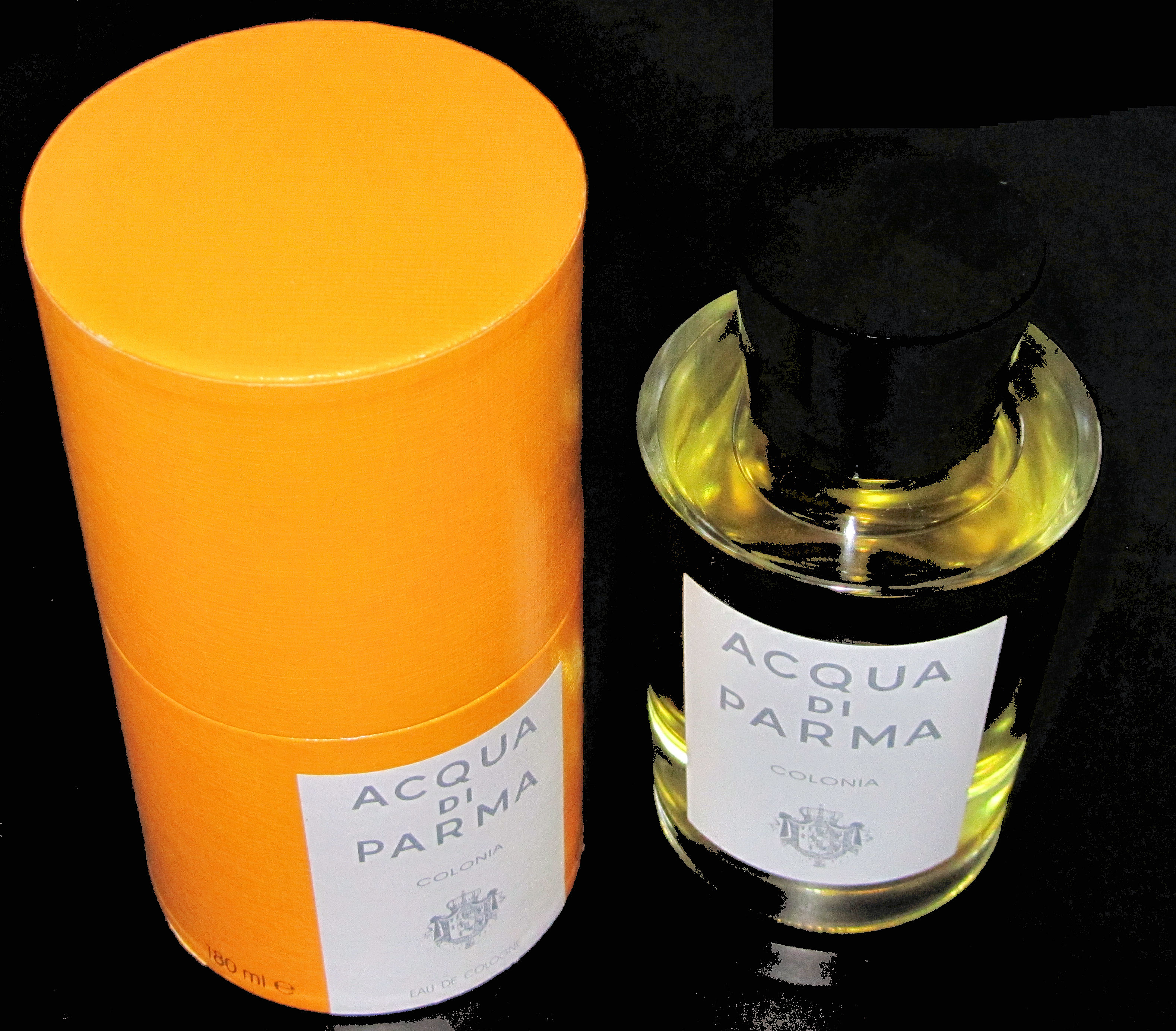 Acqua di Parma Colonia, Eau de Toilette